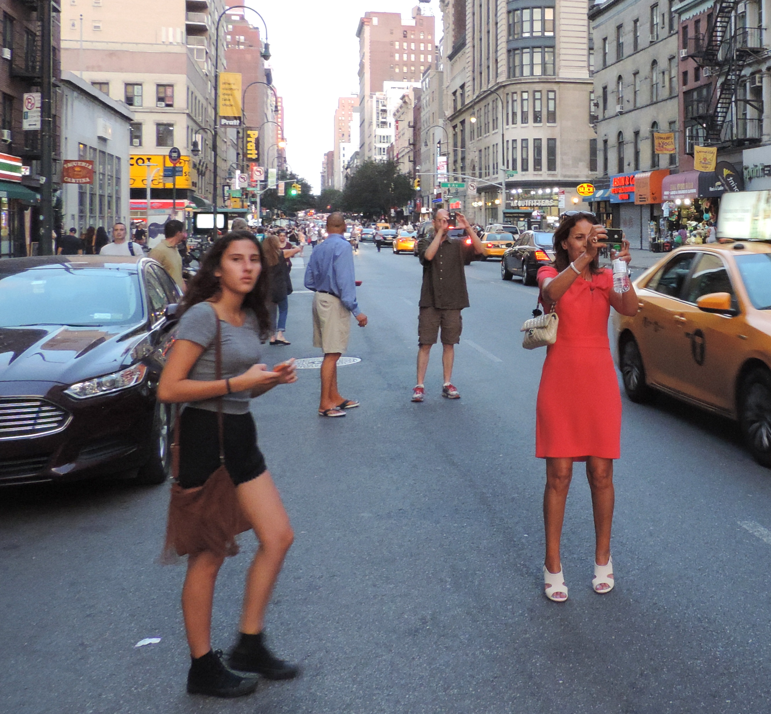 Looking southeast at observers of Manhattanhenge sunset.